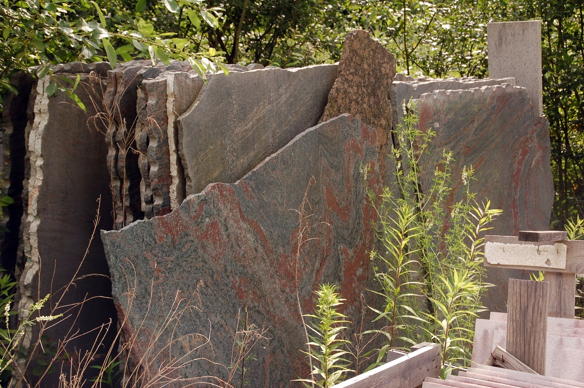 Slabs of dimension stones (frontmost slabs are migmatite „Verde Tropical“ from Brazil, peeping out from behind there is a single slab Rapakivi Granite „Baltic Brown“ from Finland) stored next to the abandoned „Unica“ limestone quarry, town of Villmar, Hesse, Germany.